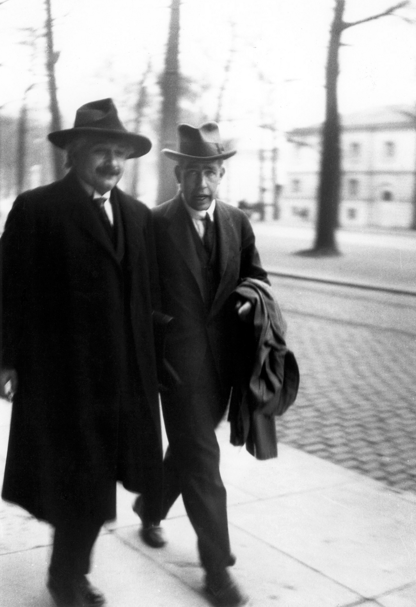 Niels Bohr and Albert Einstein Foto by Paul Ehrenfest (1880-1933), taken at the 1930 Solvay Conference in Brussels